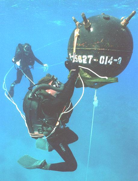 I copied this image from in the Norwegian Wikipedia and brightened it in Paintshop Pro.